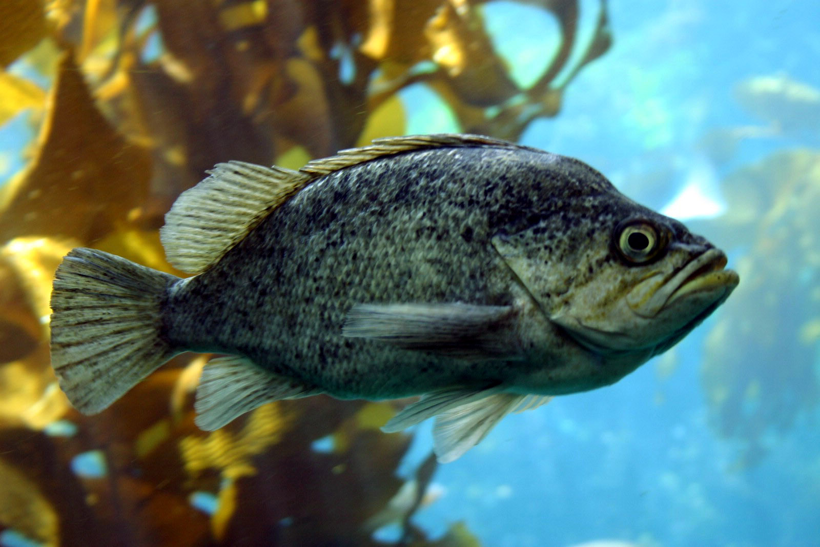 Sebastes atrovirens (kelp rockfish). Courtesy of the Monterey Bay Aquarium.